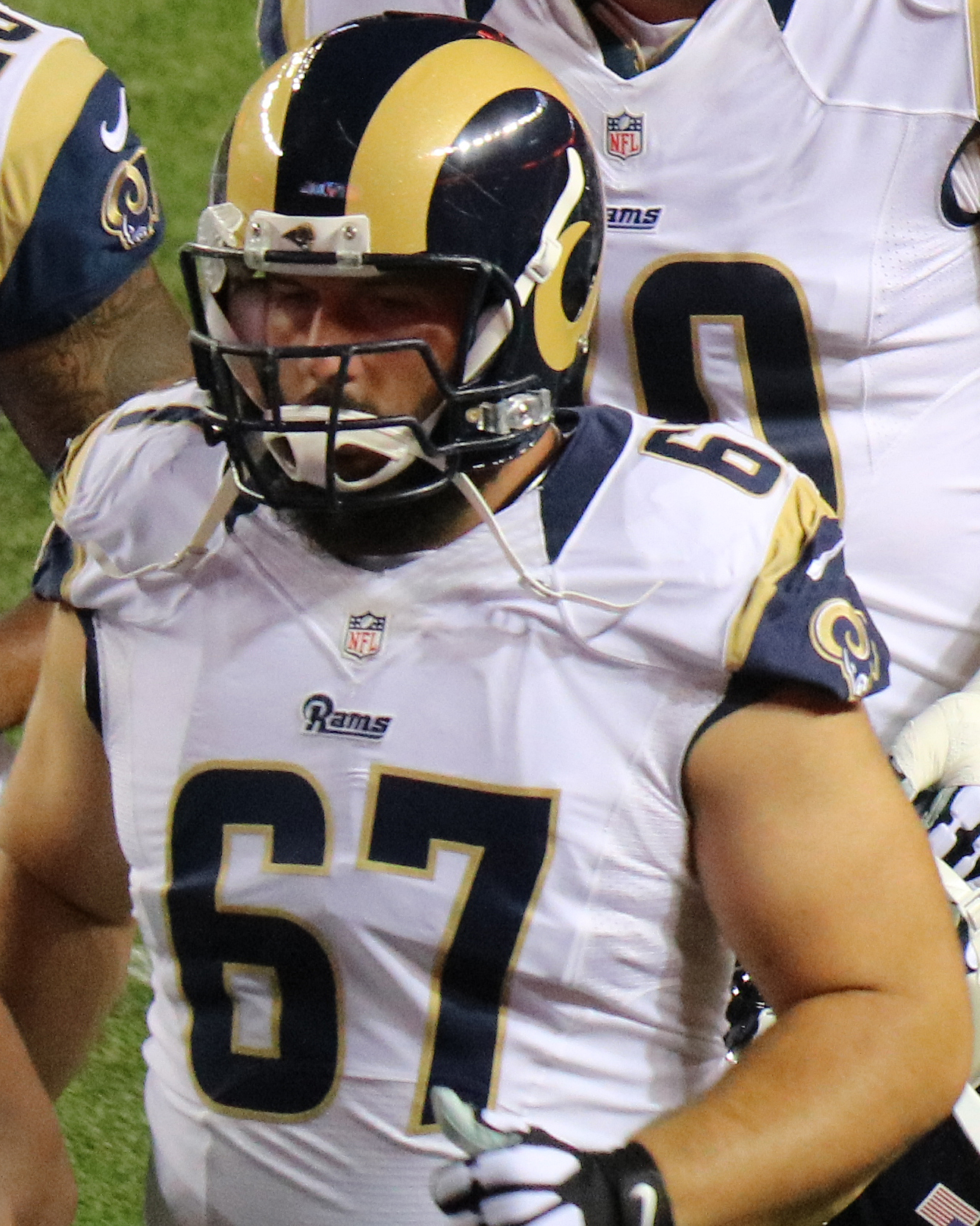 Brian Folkerts, a player on the National Football League.